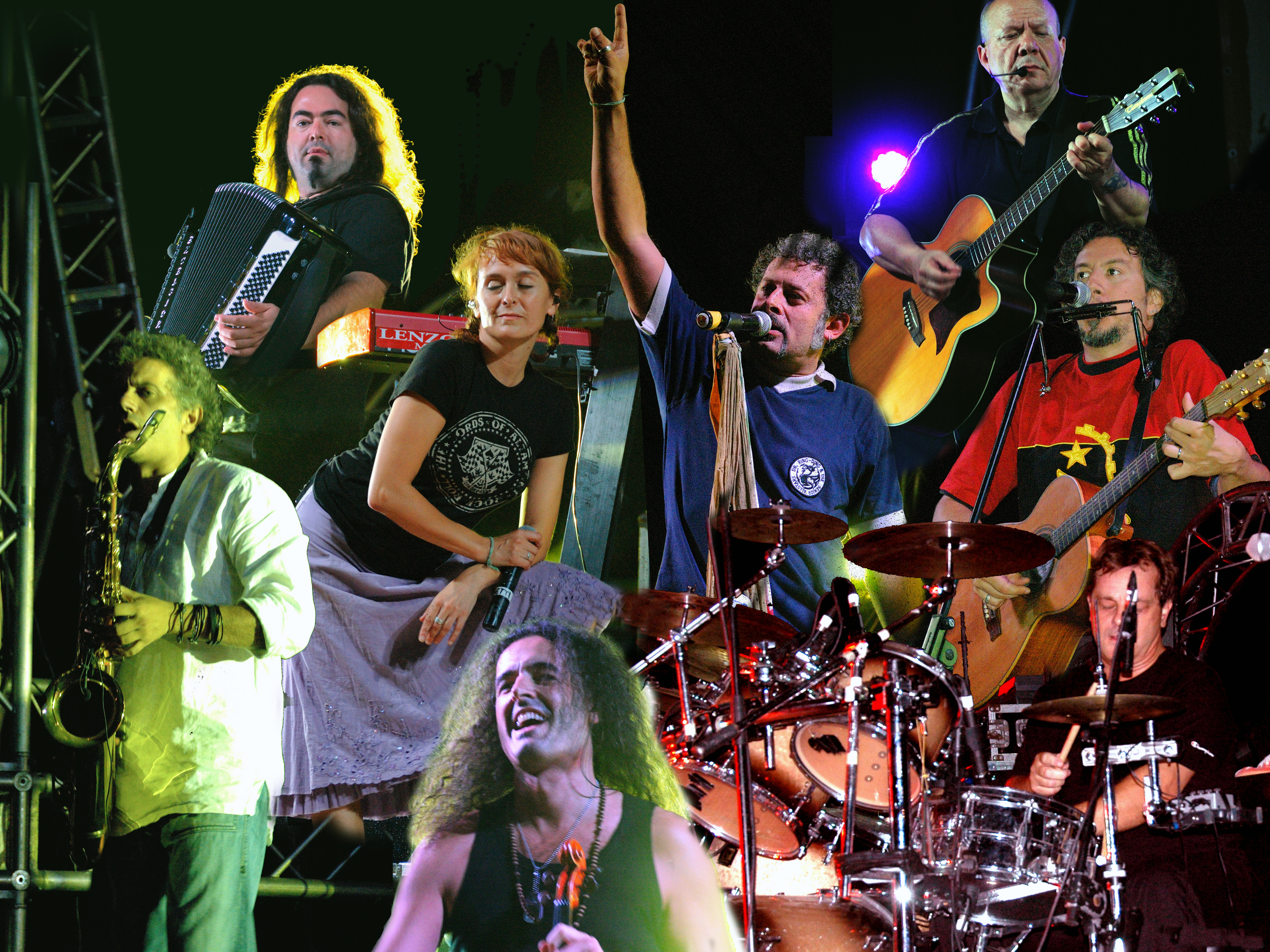 Collage of the members of the band, Modena City Ramblers made by the photographer of their photographs; Roberto Scorta